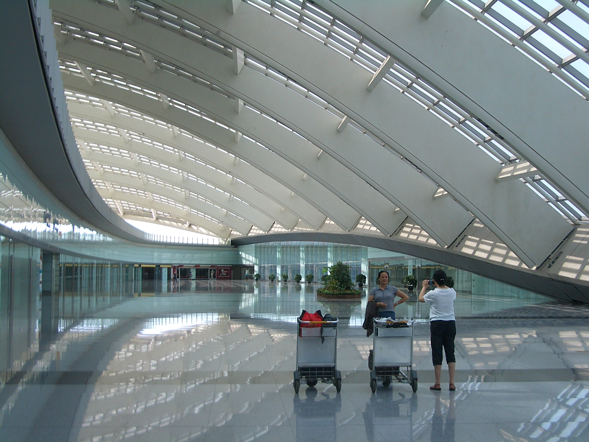 Interior of Beijing Capital International Airport Terminal 2.